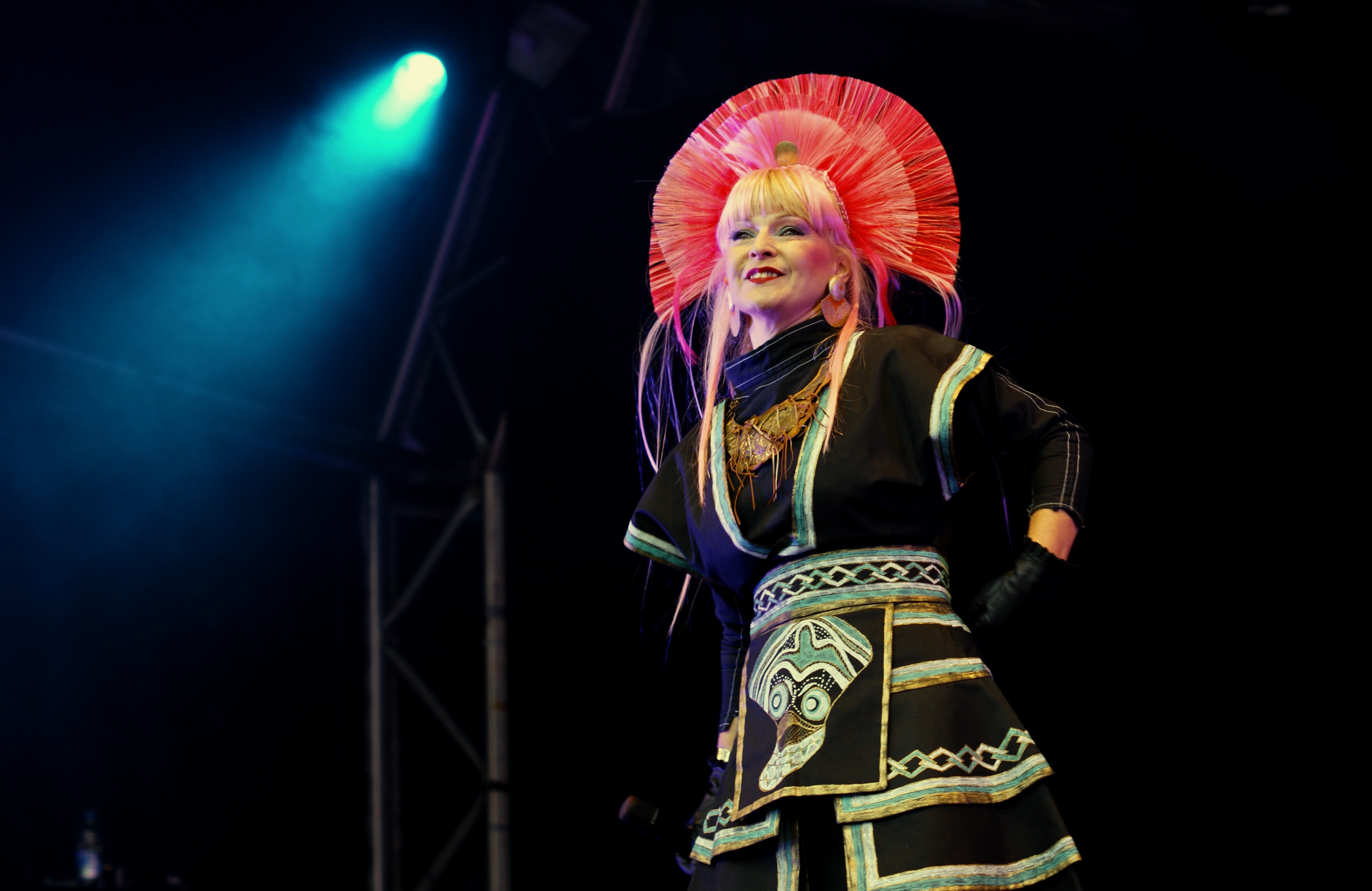 Toyah performing at Manchester Pride on Monday the 29th of August 2011